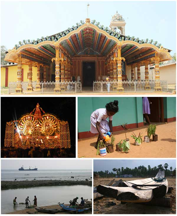 Impressions of Polikandy